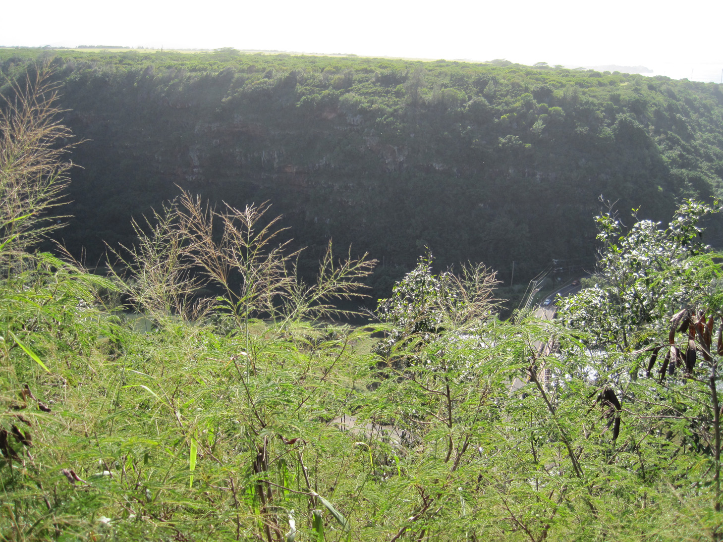 View across Waimea Valley from Puʻu o Mahuka Heiau, a National Historic Landmark on the North Shore of Oahu, Hawaii